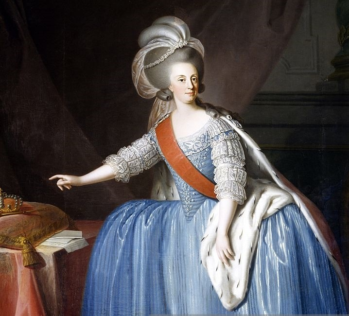 Portrait of Queen Maria I of Portugal